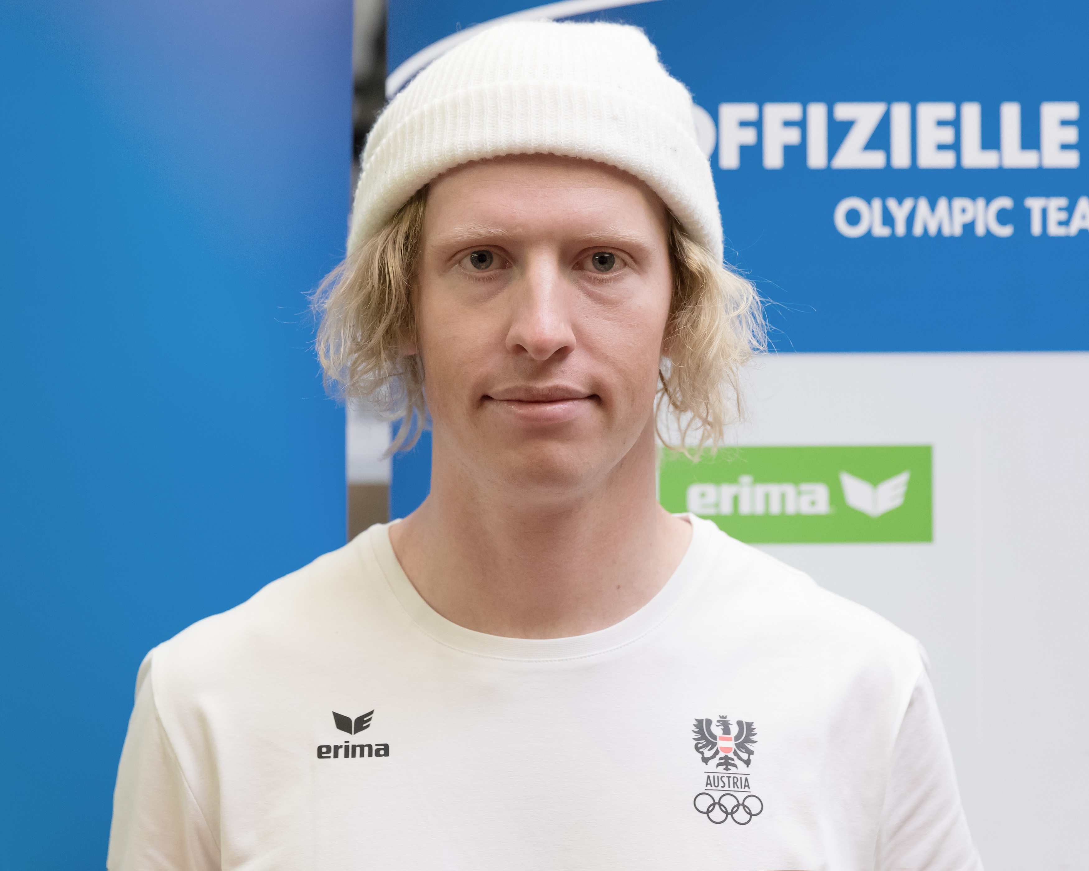 Clemens Millauer at the outfitting of the Austrian team for the 2018 Winter Olympics (Hotel Marriott in Vienna, Austria.